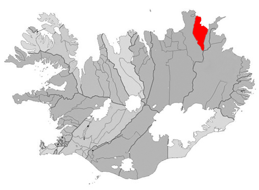 Based on Municipalities of Iceland.png.